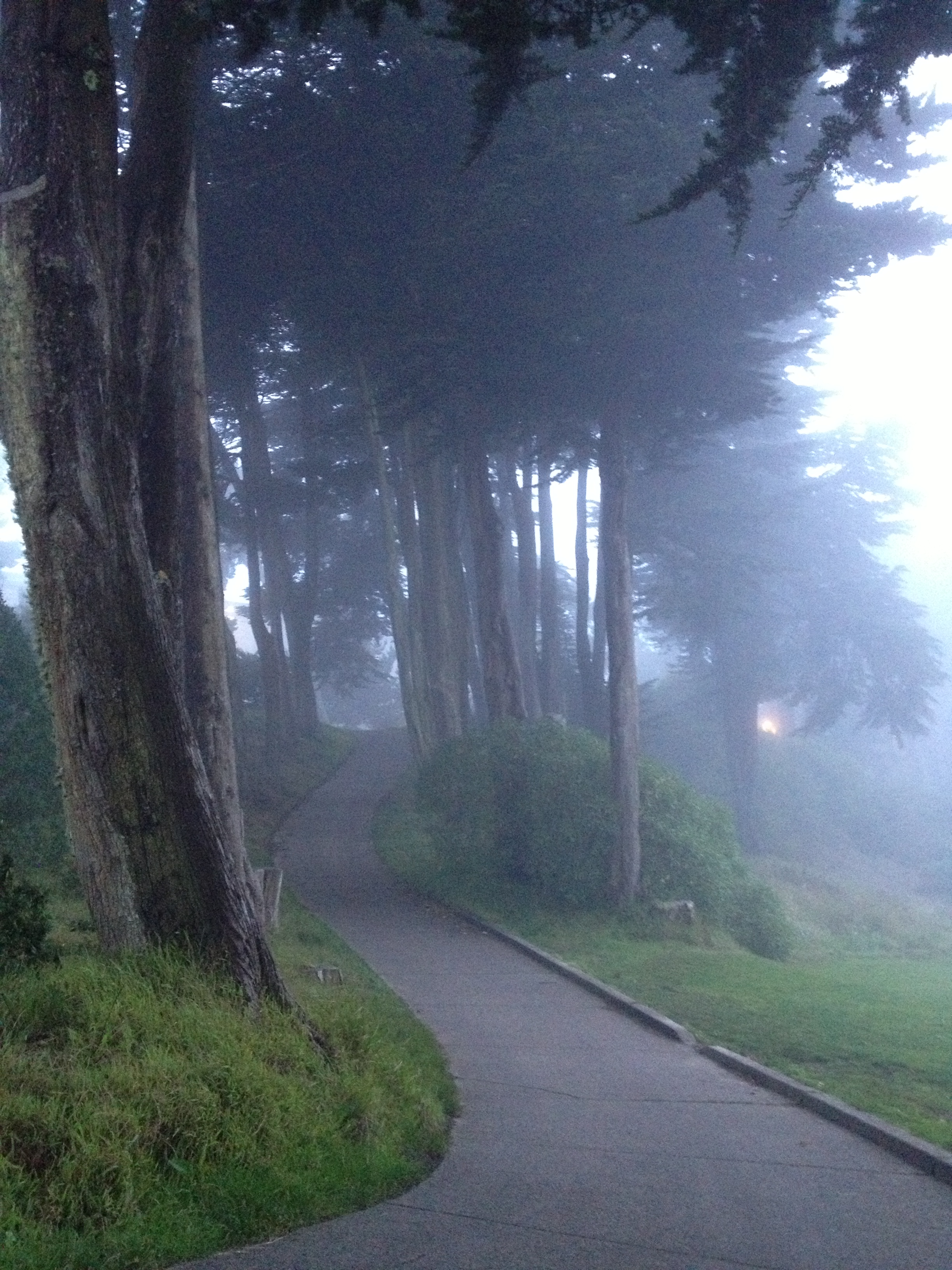 Pathway at Lincoln Park Golf Course, San Francisco